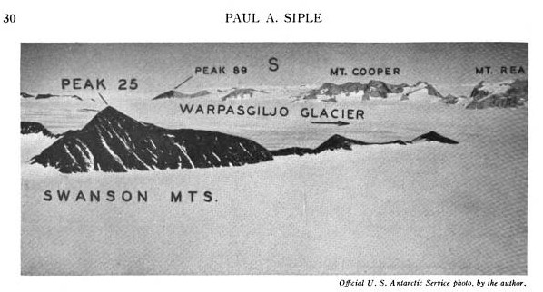 The Warpasgiljo Glacier looking towards the south.